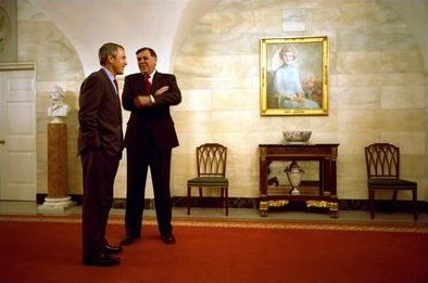 Before taking a photo with Hispanic members of his staff as part of the Cinco de Mayo celebrations, President George W. Bush speaks with Secretary for Housing and Urban Development Mel Martinez in the downstairs corridor